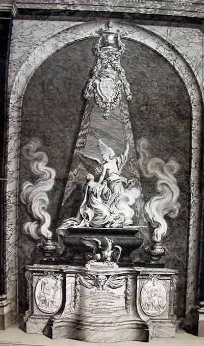 Queen Katarzyna Opalińska's tomb is in the church of Notre-Dame-de-Bonsecours in Nancy.